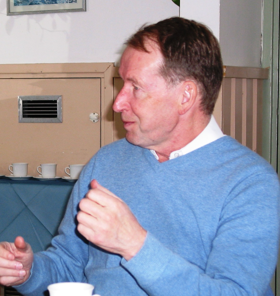 Member of the Parliament of Finland